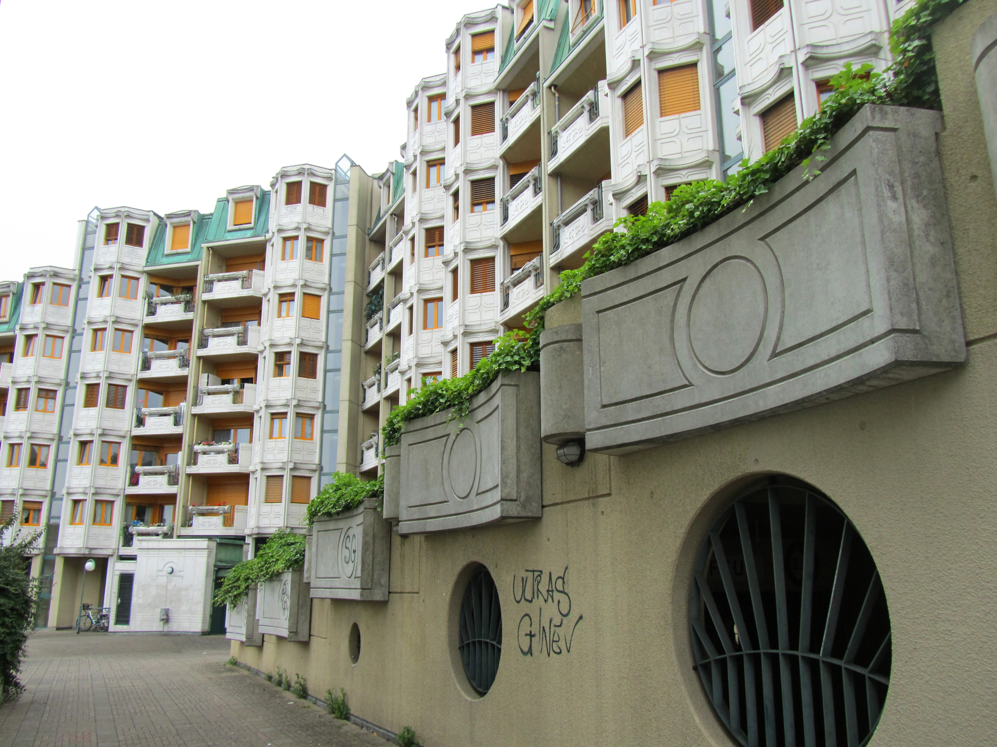 Apartment building at the corner of Rue Louis-Favre and Rue de la Servette in Quartier des Grottes, a neighbourhood of Geneva, Switzerland